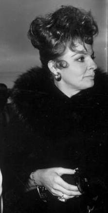 Local call number: c015710a Title: Carole Cook at a film premiere in Weeki Wachee Springs, Florida Personal Author: Johnson Physical descrip: 1 photoprint: b&w; 4×5 in. Series Title: Commerce Collection General note: The Incredible Mr. Limpet was not filmed at the springs but the premiere was held at the springs. The audience watched it from the underwater 500-seat theater. Repository: 500 S. Bronough St., Tallahassee, FL 32399-0250 USA. Contact: 850-245-6700. Persistent URL